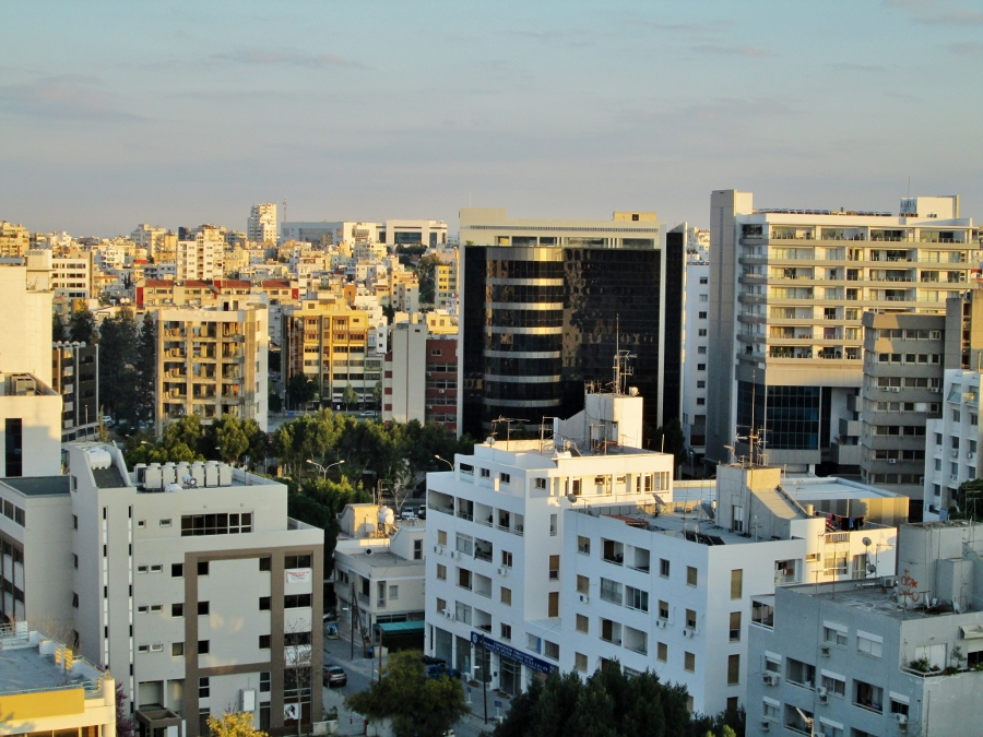 Delloite Buildings and Central Bank of Cyprus view Nicosia Republic of Cyprus Chypre